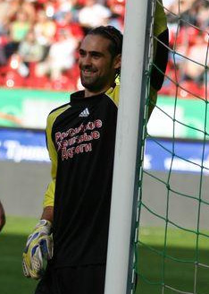 Pelizzoli playing against AC Milan